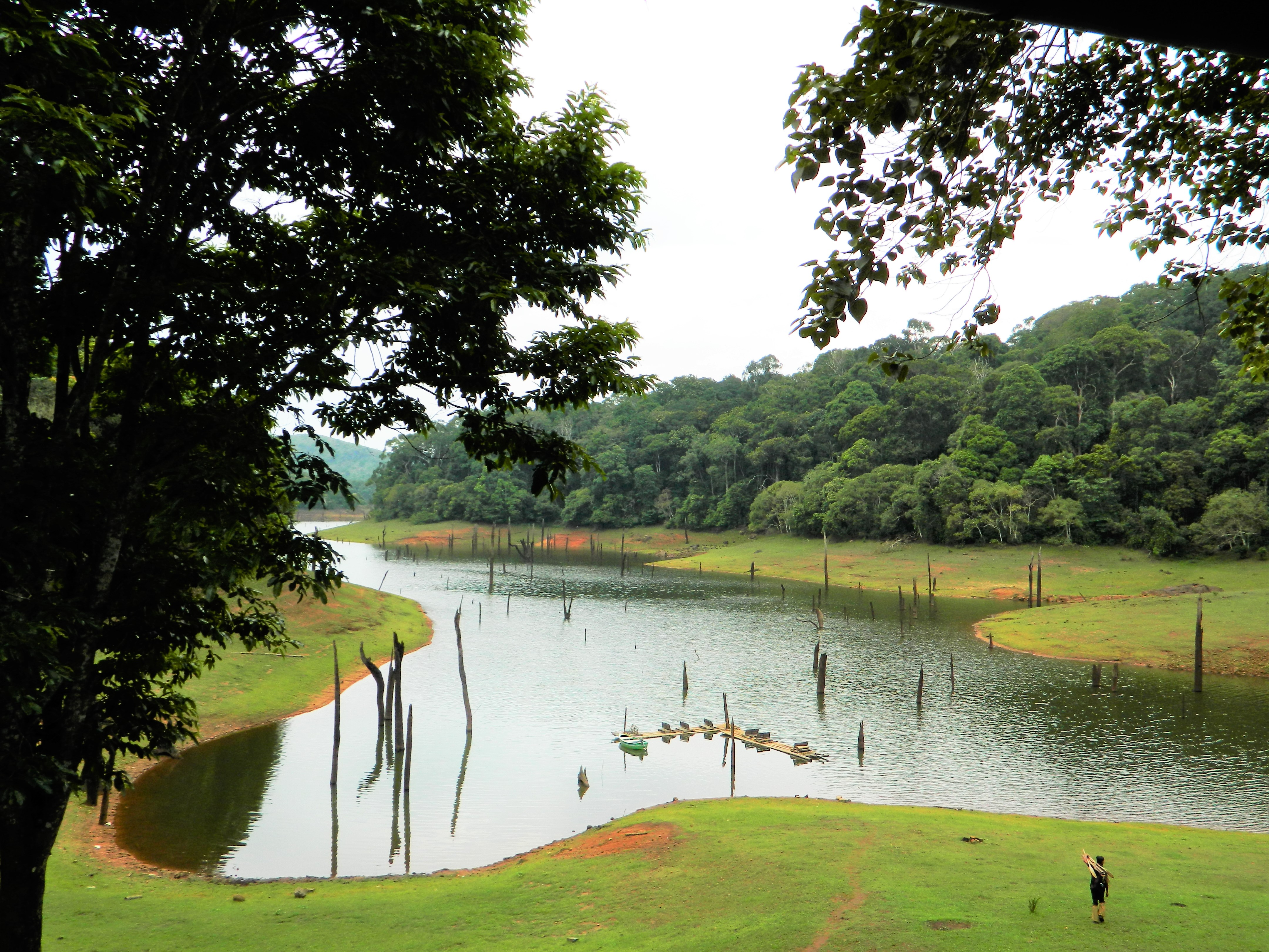 Periyar is notable as an elephant reserve and a tiger reserve. The sanctuary surrounds Periyar Lake, a reservoir measuring 26 sq.km. which was formed when the Mullaperiyar Dam was erected in 1895. The reservoir and the Periyar River meander around the contours of the wooded hills, providing a permanent source of water for the local wildlife.